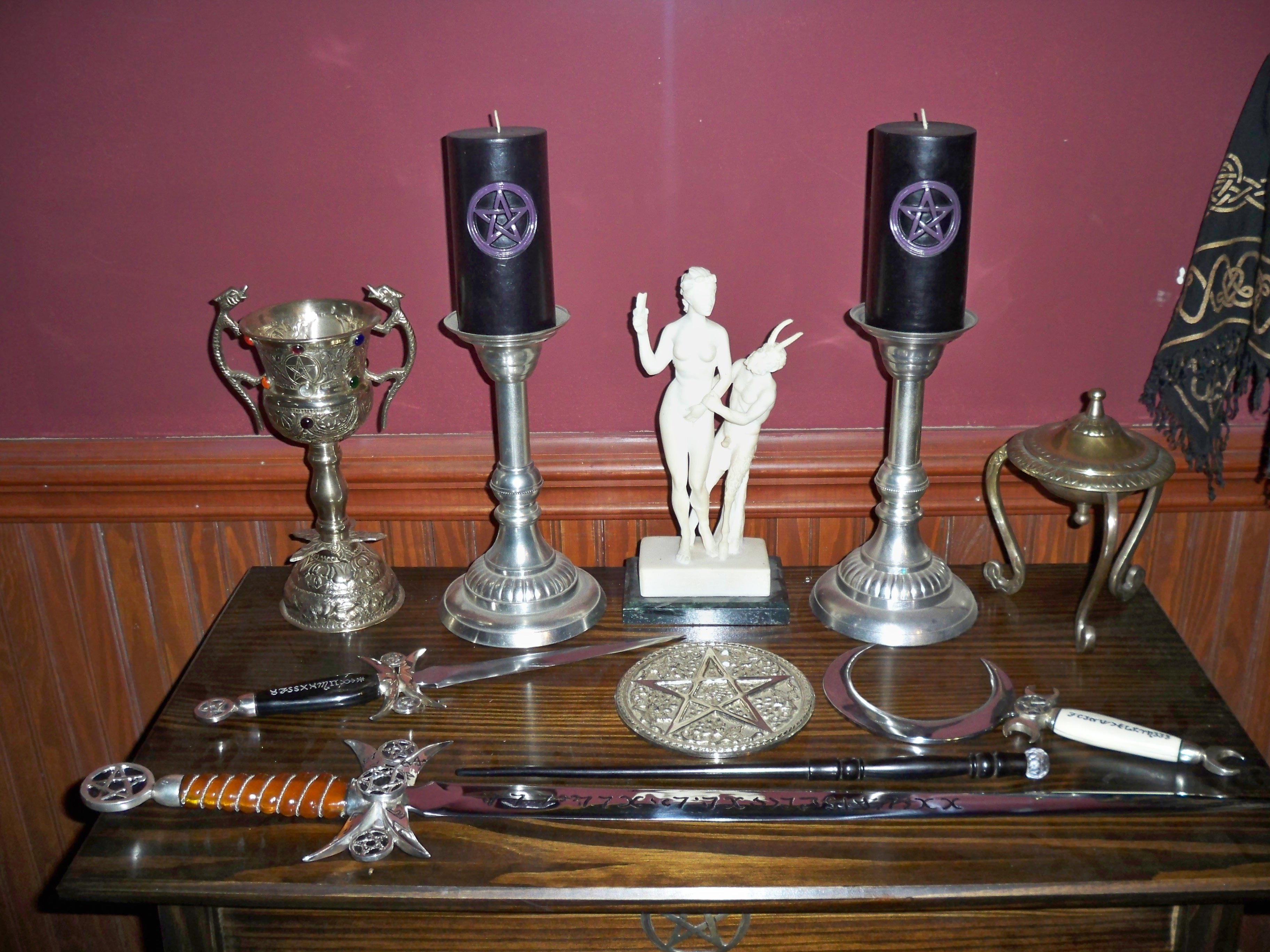 A traditional Wiccan altar displaying magical working tools, including athame, boline, sword, wand, pentacle, chalice and censer.